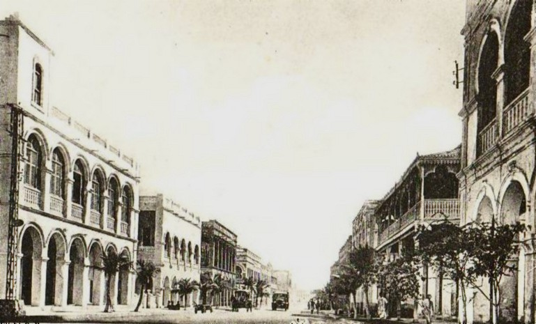 Djibouti. Rue d'Abyssinie in the European town. Postcard from the 1920s.